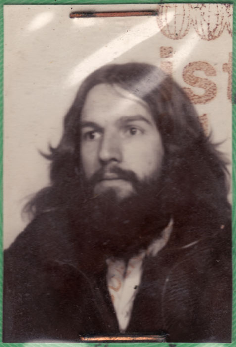 Selfportrait Nicolaus Schmidt as student of HfbK from 1974, done in a "Passbildautomat" ( photobooth) in Hamburg. The new scan is taken from a international student ident card (1975).